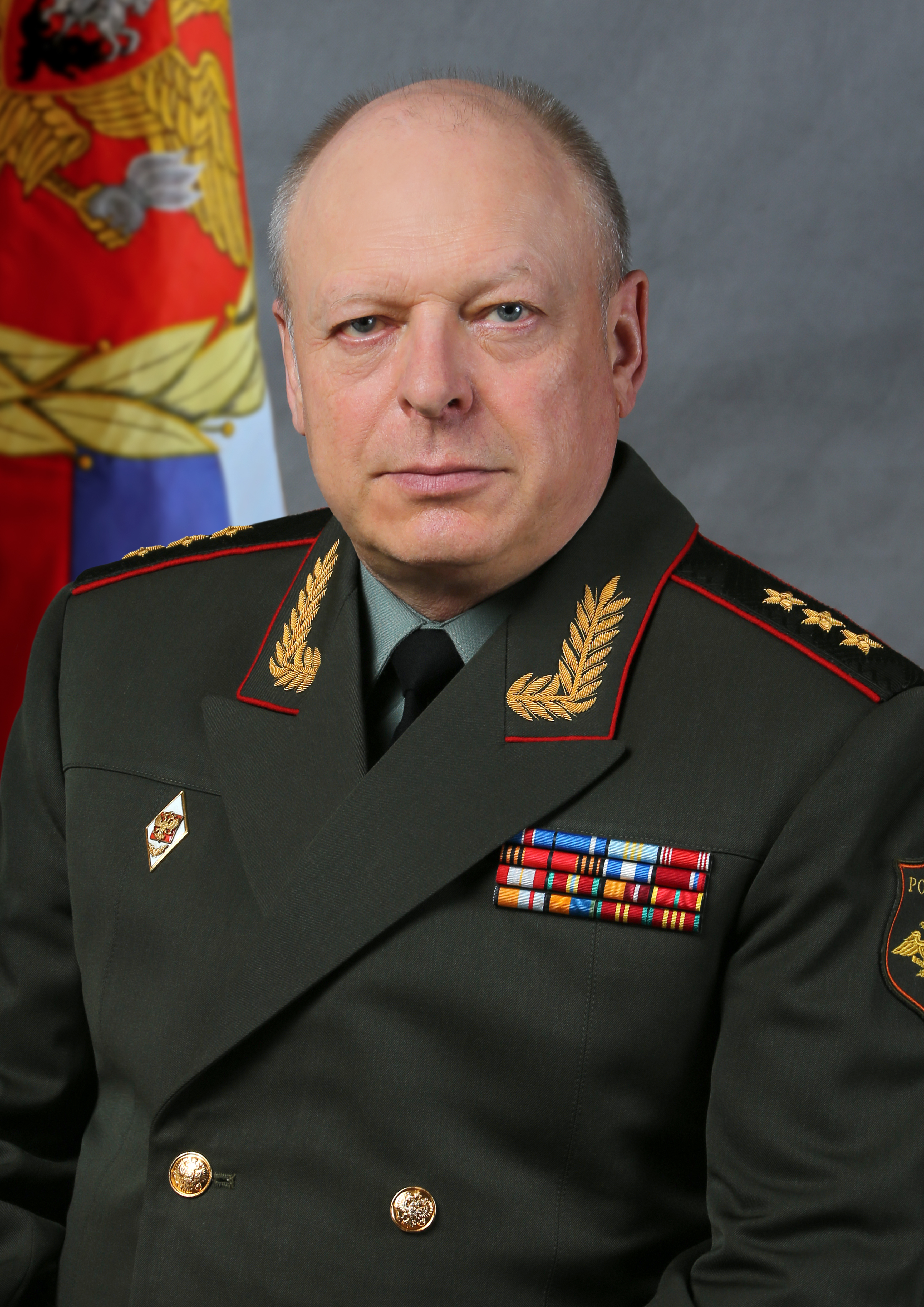 генерал-полковник Олег Салюков - Colonel General Oleg Salyukov